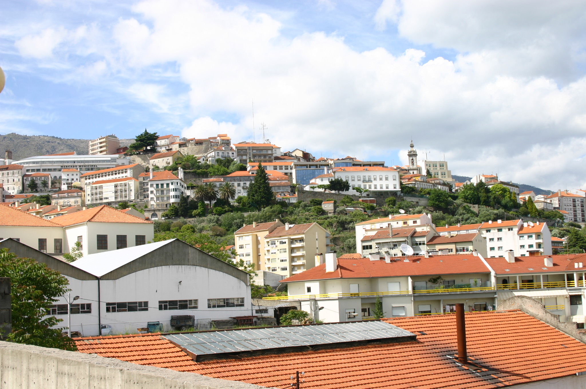 Autor/Author: António ML Cabral. Esta imagem pode ser alterada, copiada, redistribuída, com a condição de ser atribuída explicitamente a autoria da foto. This picture can be copied, altered and redistributed in any way, with the condition of writing explicitely the name of its author.